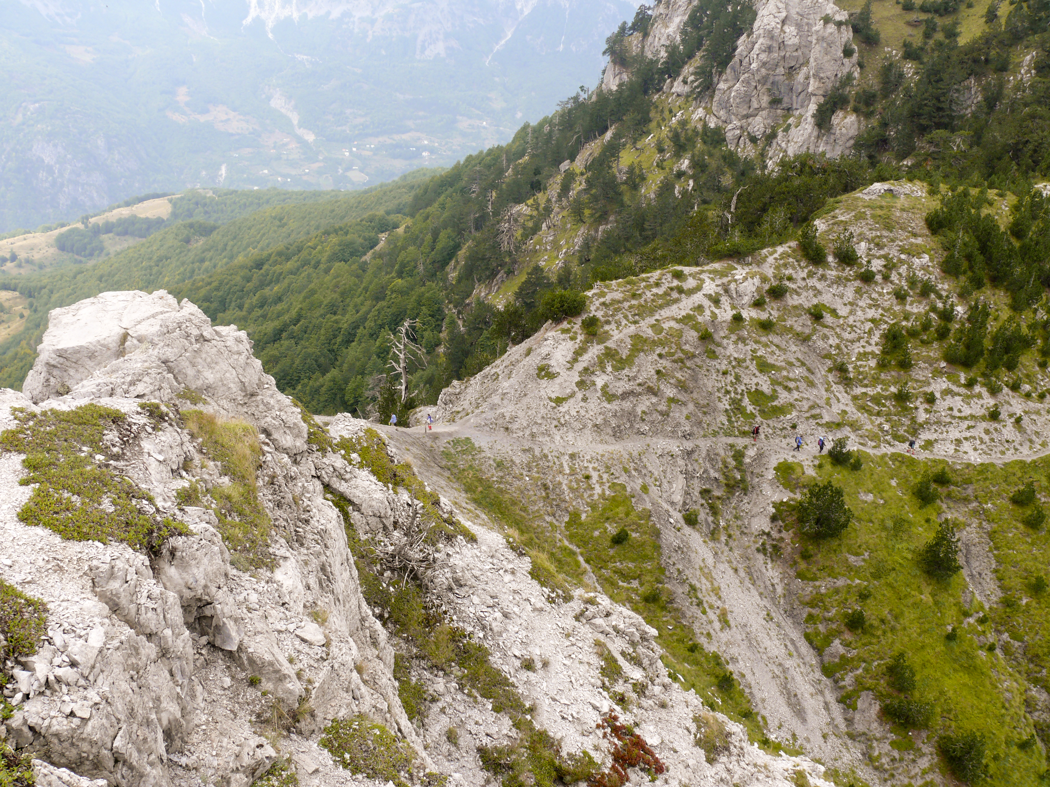 Valbona Pass - view on Thethi